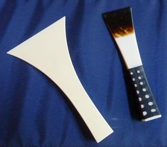 A picture comparing two kinds of plectrums for the shamisen, which is a Japanese three-stringed lute, particularly the plectrums for minyo shamisen, and Heike shamisen.